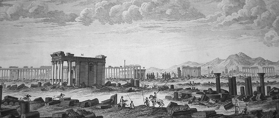 The Temple of Baalshamin in Palmyra in an engraving by Robert Wood, 1753. Image taken from Robert Wood's The Ruins of Palmyra, otherwise Tadmor, in the desart (London, 1753) [NA335.P2 W8] digitally reproduced by Lance Jenott, courtesy of the University of Washington Libraries, Special Collections.